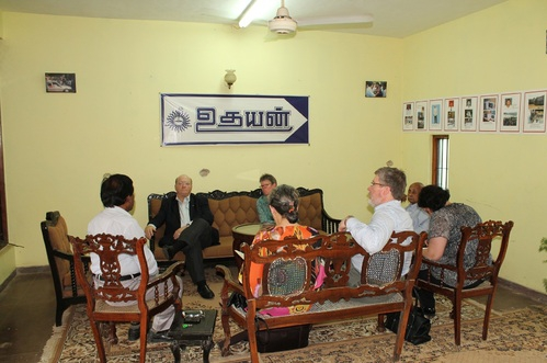 Canadian Senator Hugh Segal, Canadian High Commissioner in Sri Lanka Shellie Viding including five delegates met E. Saravanapavan, Member of Parliament and Managing Director of Uthayan Newspapers and Editor-in-chief M. V. Kanamaylnathan at Uthayan Newspapers's Office in Jaffna.